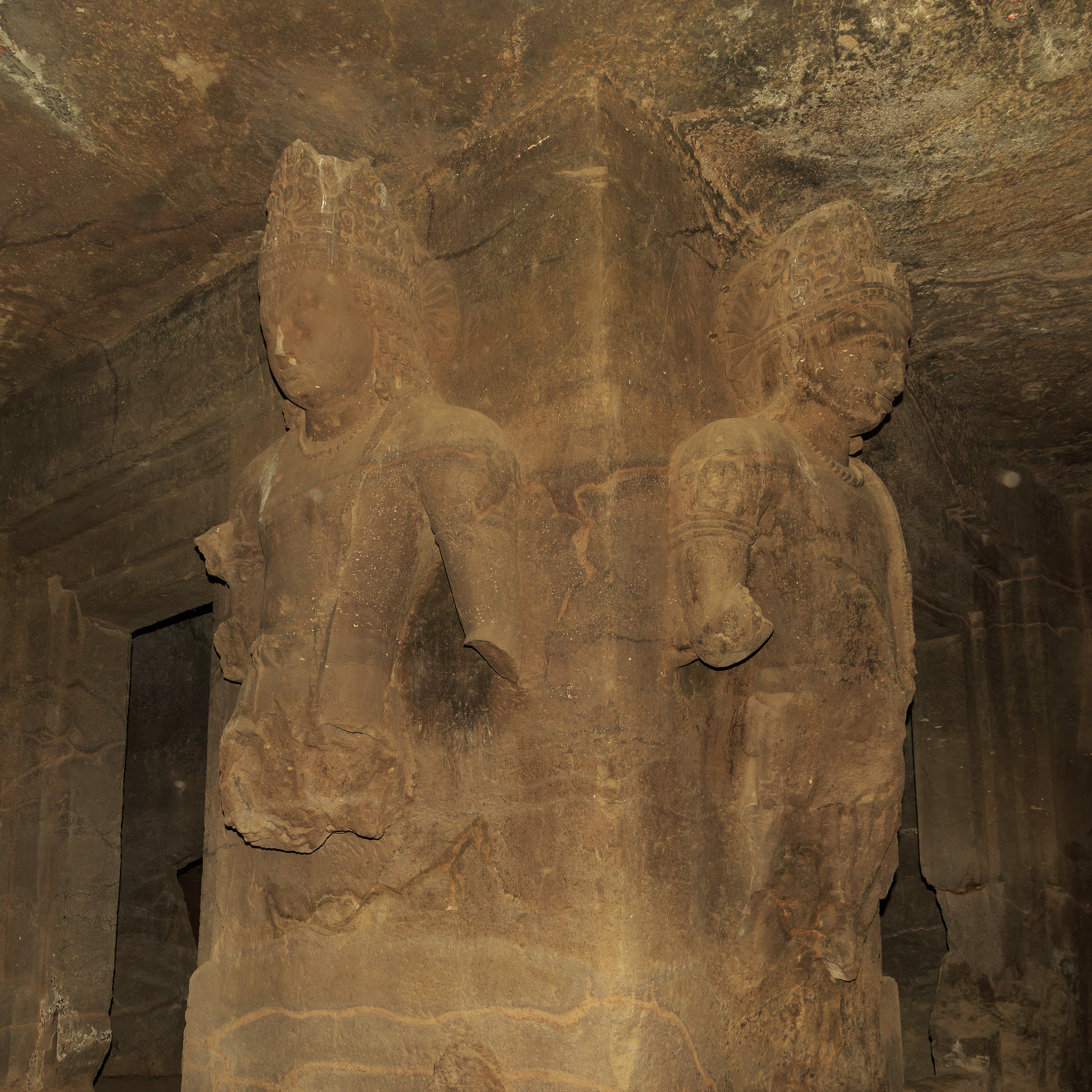 Inside Elephanta Caves. Elephanta Island, Maharashtra, India.